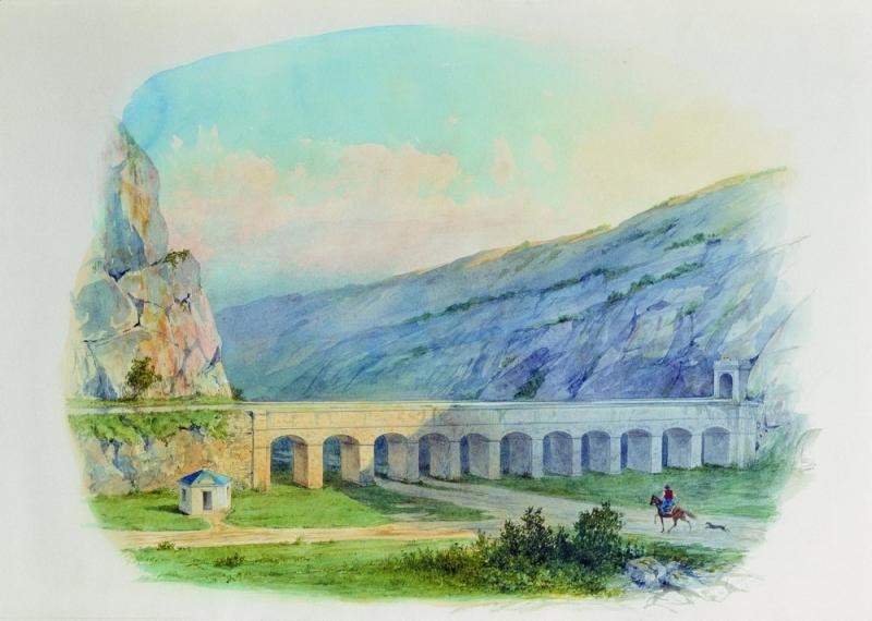 Инкерман